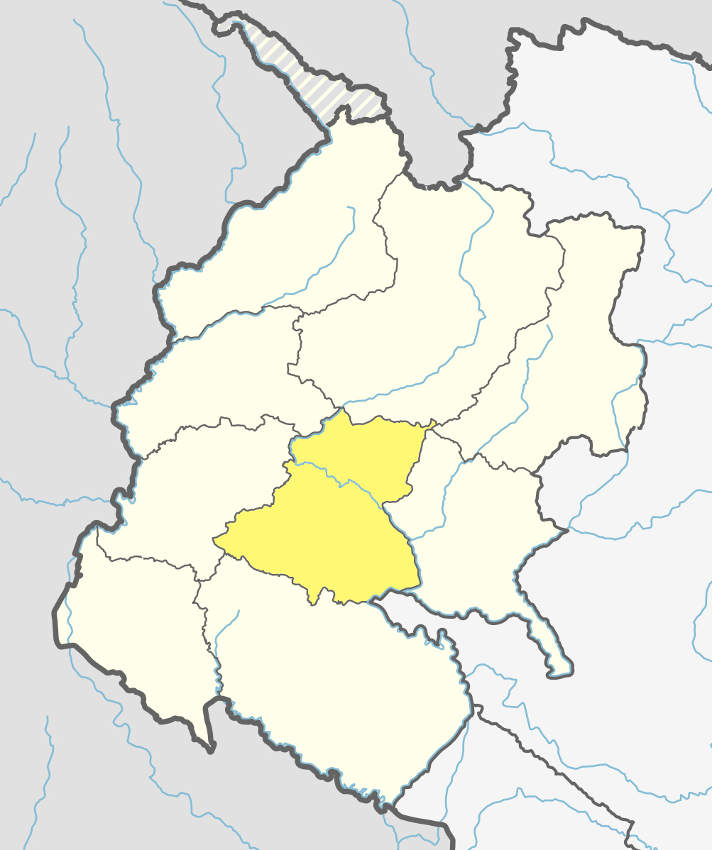 Doti District